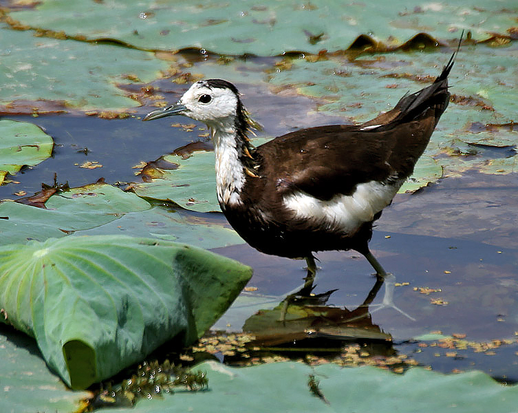 Pheasant-tailed Jacana Hydrophasianus chirurgus in Hyderabad , India.